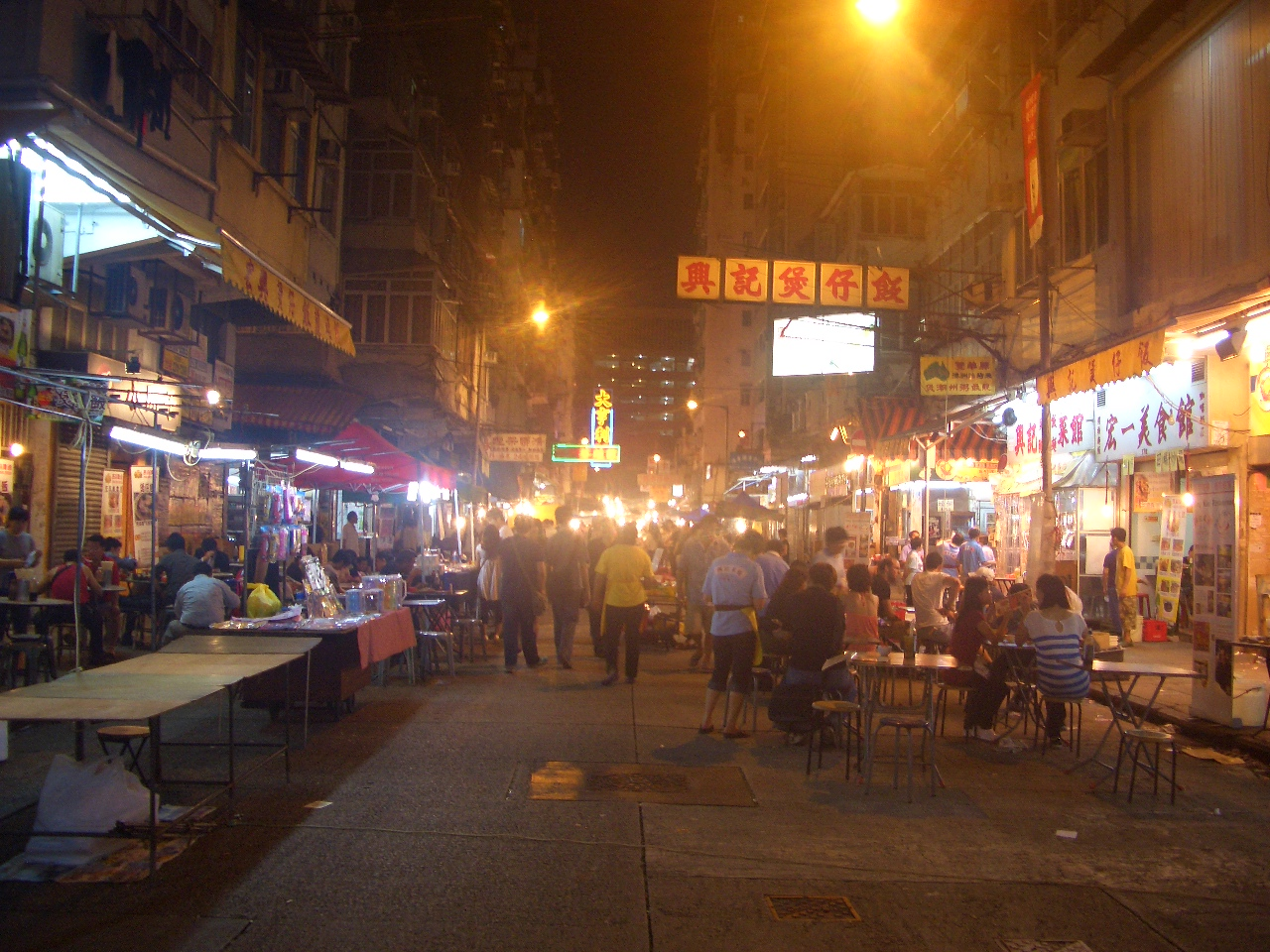 Temple St.